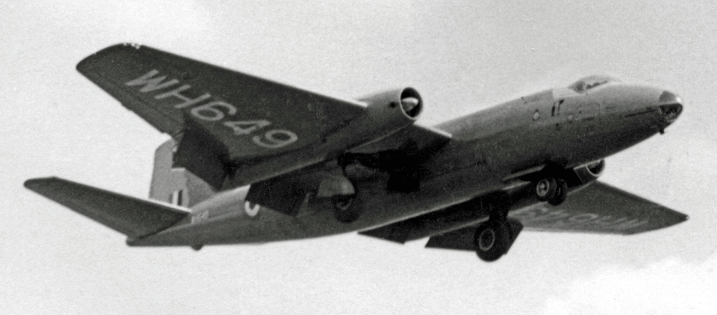 English Electric Canberra B.2 WH649 of 139 Squadron RAF displaying at Wolverhampton (Pendeford) Airport in 1953